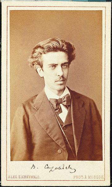 Vladimir Sergeyevich Soloviev (1853-1900), russian philosopher, poet, writer. Photo by Alex Eichenwald. Moskow, 1871.